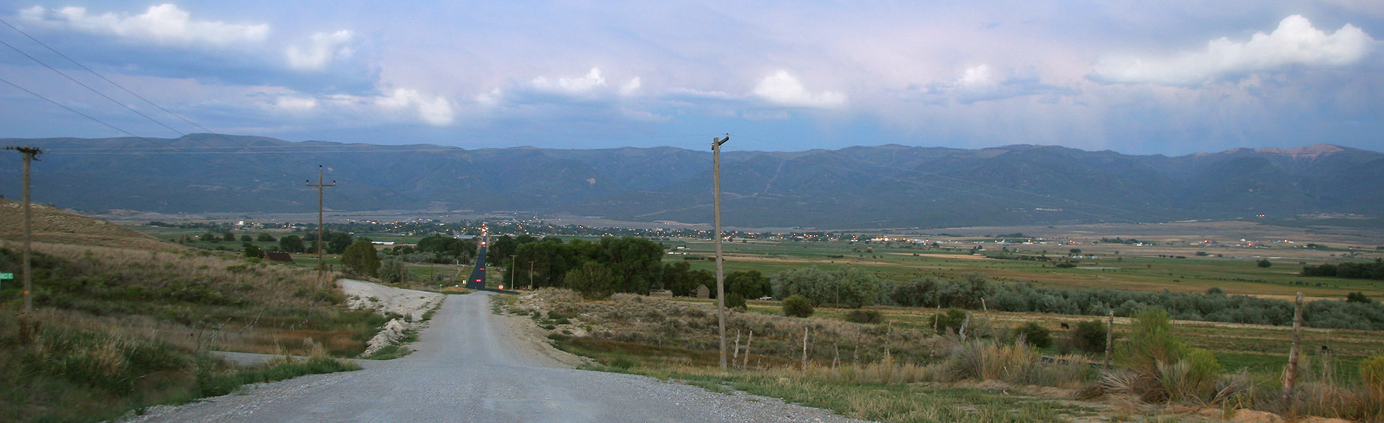 Panorama of Mount Pleasant from the west, August 2006